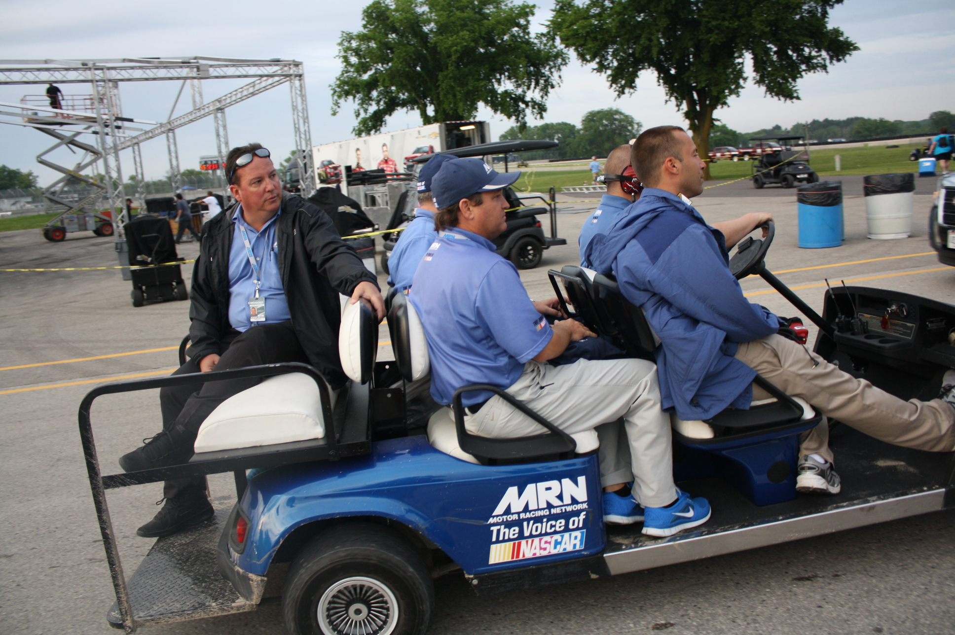 Motor Racing Network corner announcers riding in a cart after the 2013 Johnsonville 200 race at Road America.